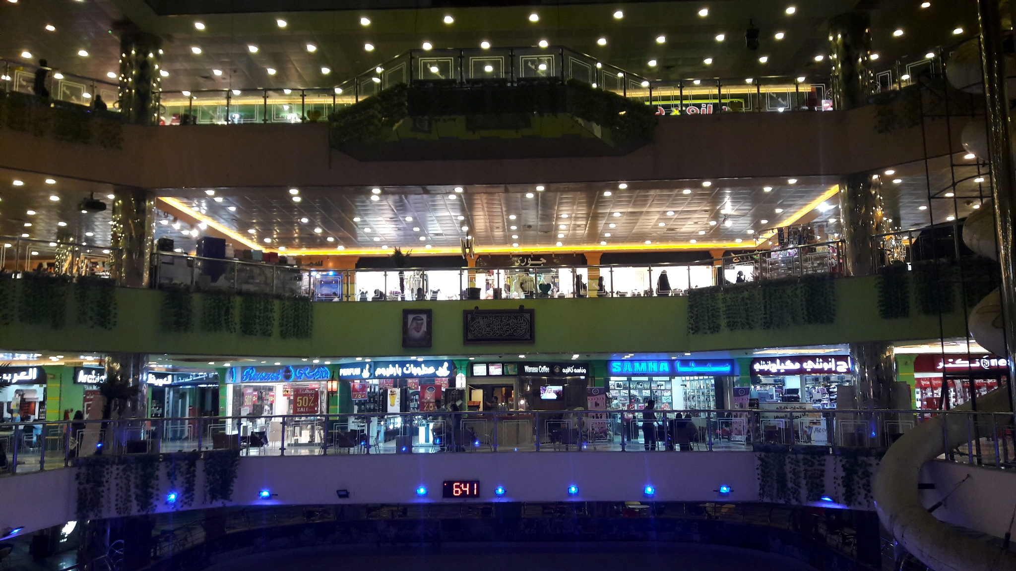 South Mall, Jeddah